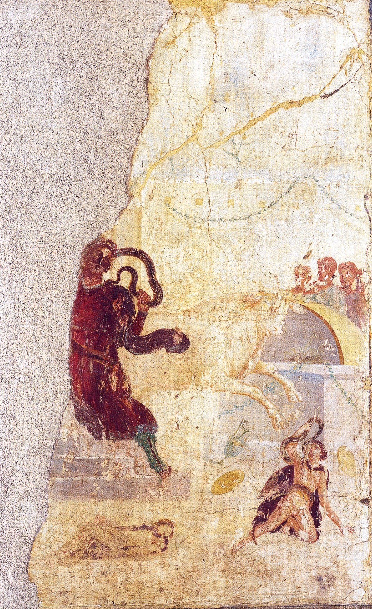 Naples, Museo Nazionale 111210, from Pompeii, Casa di Laocoonte: Laocoon